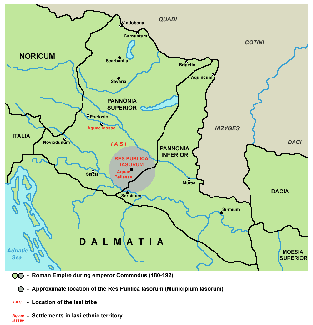 Approximate location of the Res Publica Iasorum (Municipium Iasorum) during Roman emperor Commodus (180-192). Srpskohrvatski / српскохрватски: Približna lokacija Res Publike Iasorum (Municipijuma Iasorum) u doba rimskog cara Komoda (180-192. godine).